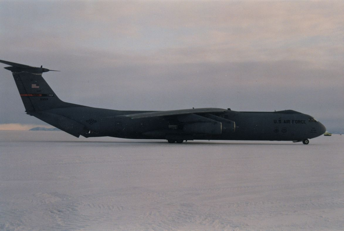 P Bond, own photograph.